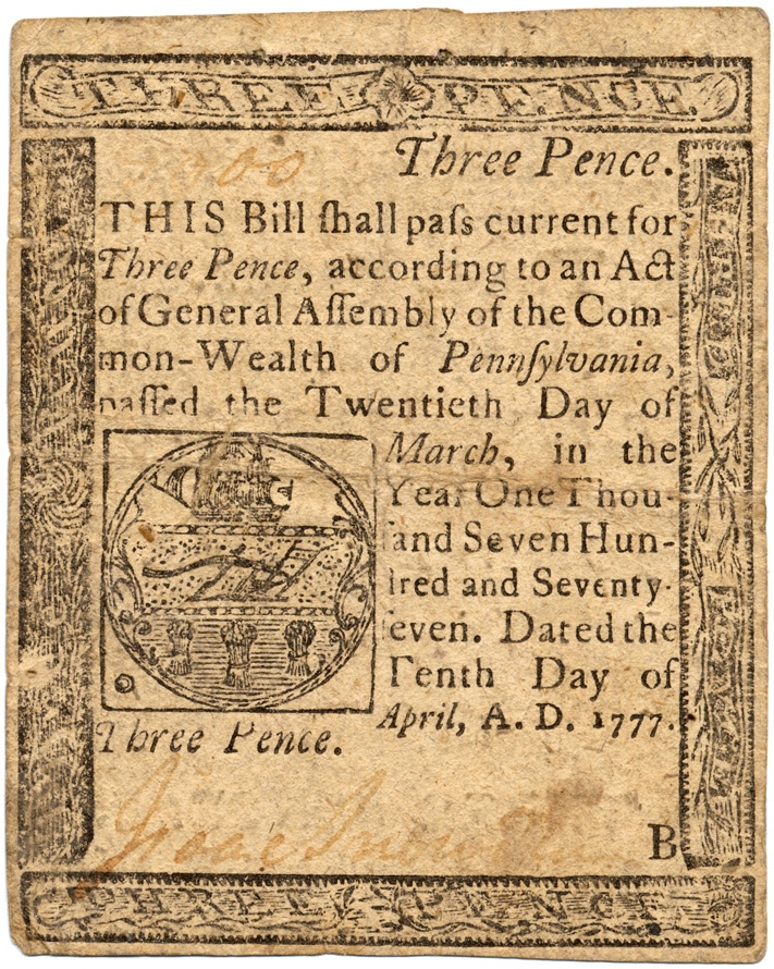 Front of three pence note in Pennsylvania currency, printed by John Dunlap, Philadelphia, Pennsylvania, 1777.